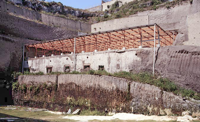 Ruins of the Villa of the Papyri at the archeological site of Herculaneum, photographed in May, 2000.